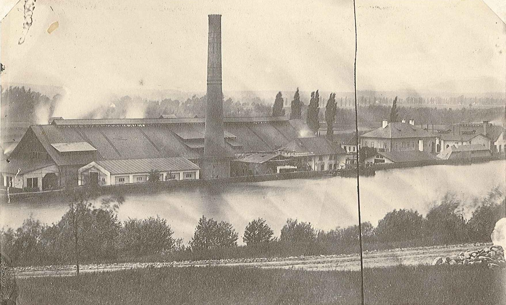 The Carlshütte at Friedeck, ca. 1865